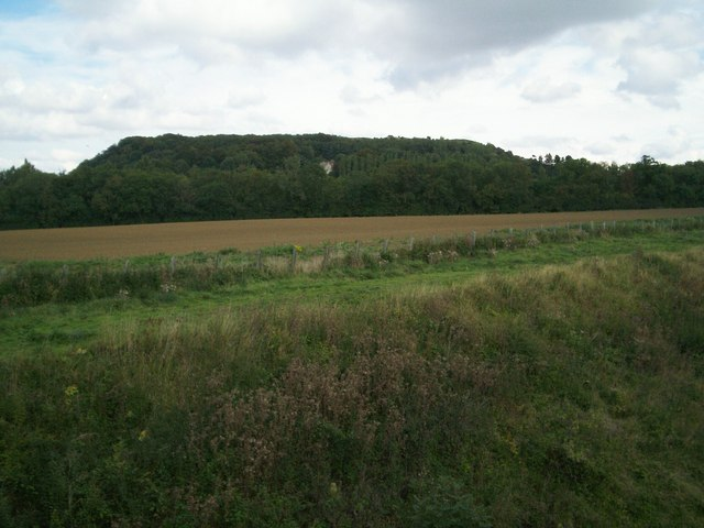 Dixton Hill. Looking from the bridge over the railway. Part of Dixton Manor is visible between the trees.